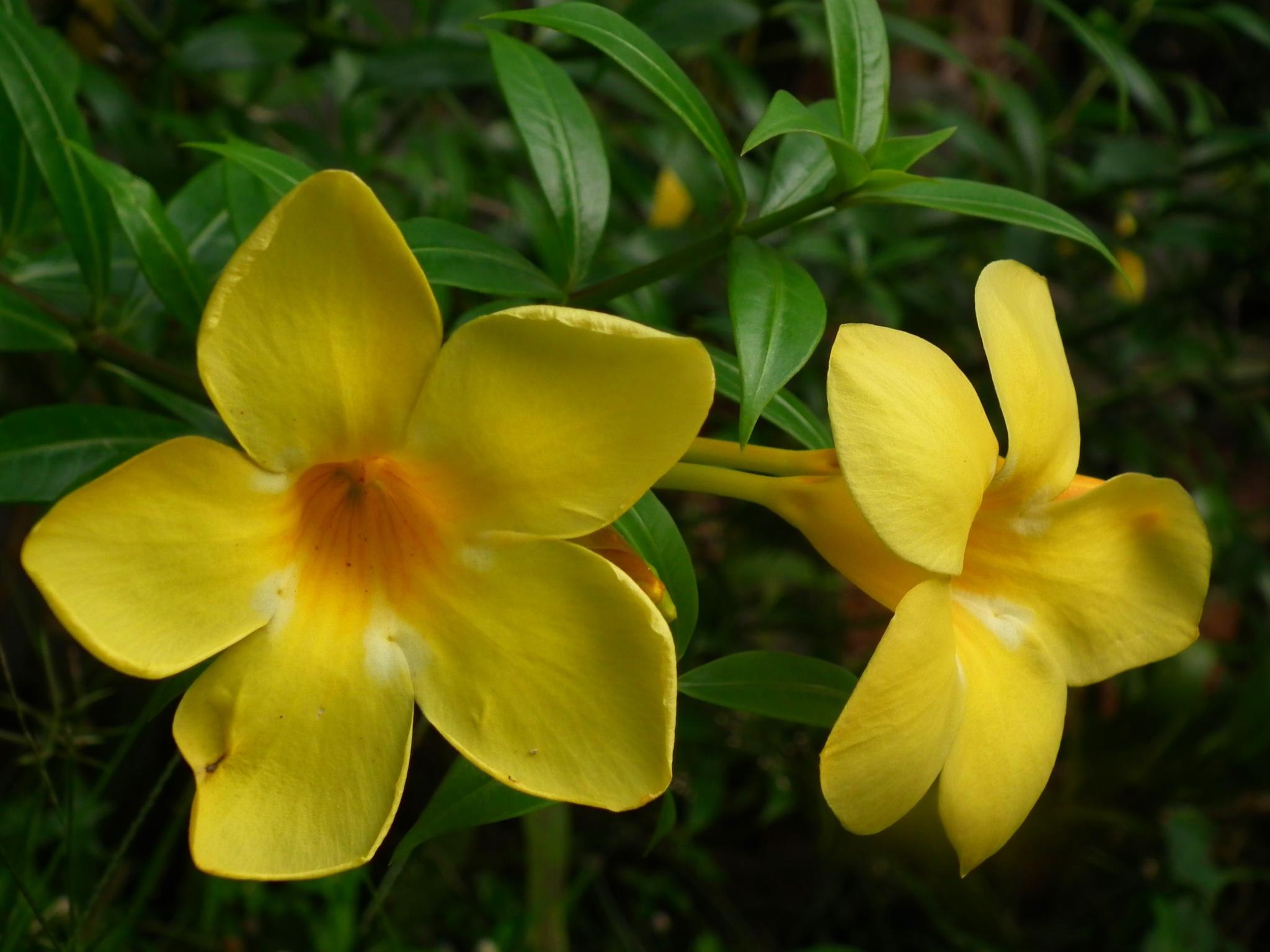 Allamanda, also known as Yellow Bell, Golden Trumpet or Buttercup Flower, is a genus of tropical shrubs or vines belonging to the dogbane family (Apocynaceae).